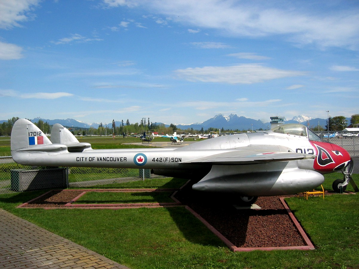 De Havilland DH-100 Vampire - Canadian Museum of Flight - Langley, BC